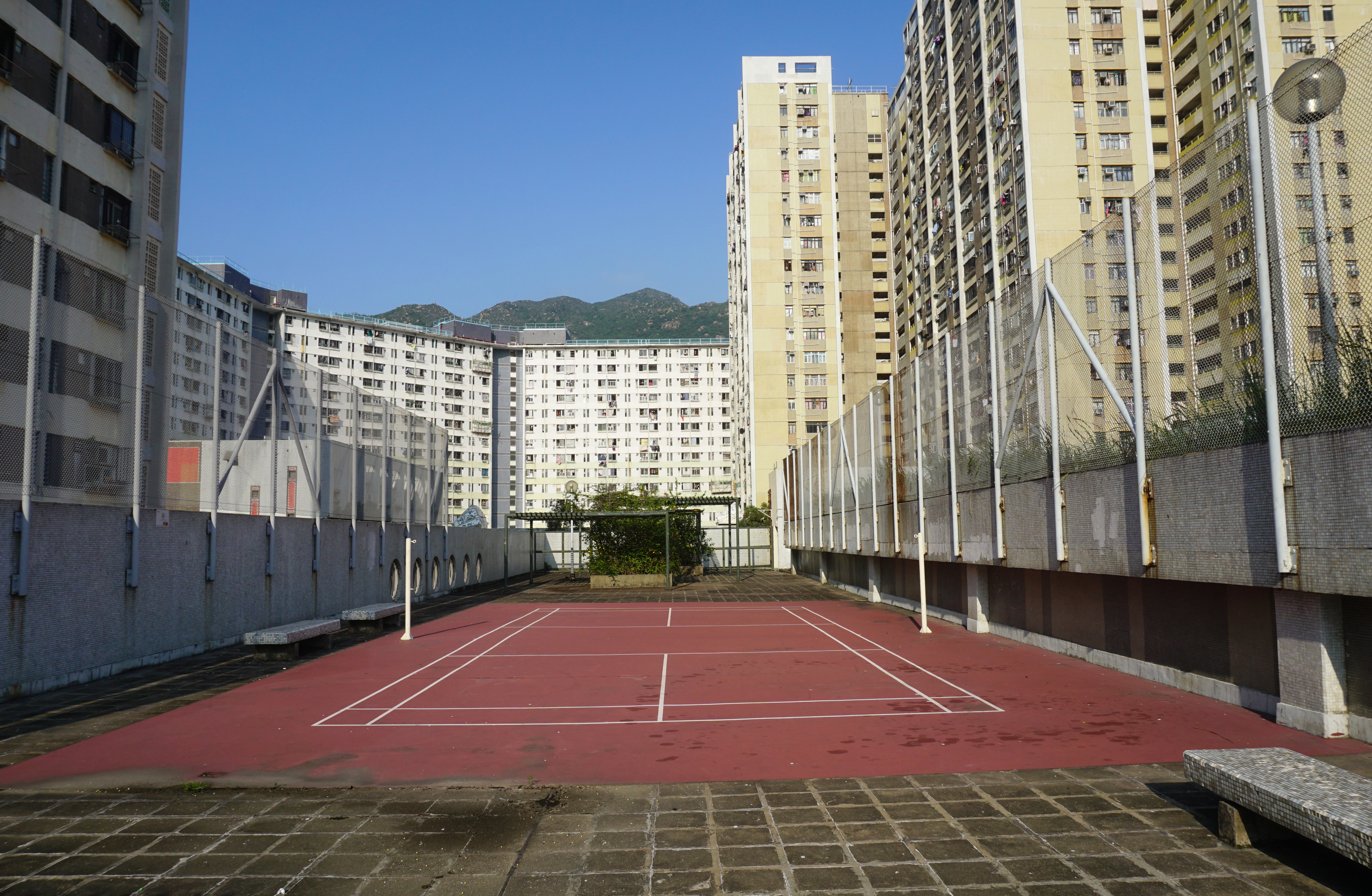 On Ting Estate in Tuen Mun, Hong Kong.